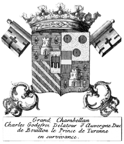 Arms of the sixth Duke of Bouillon, Charles-Godefroy de La Tour d'Auvergne, duc de Bouillon, Grand Chambellan de France